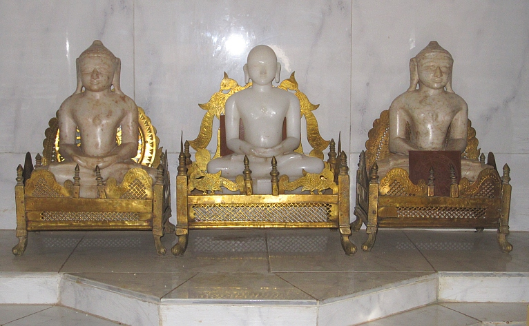 A modern Jain image between two images consecrated in 1491 AD at a Jain temple in Bilhari, Katni, MP India